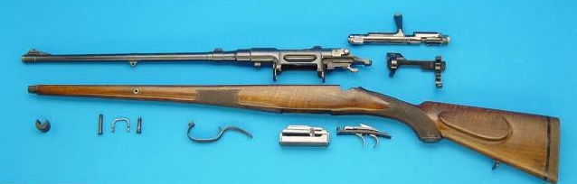 Bolt action hunting rifle Mannlicher Schönauer field stripped.